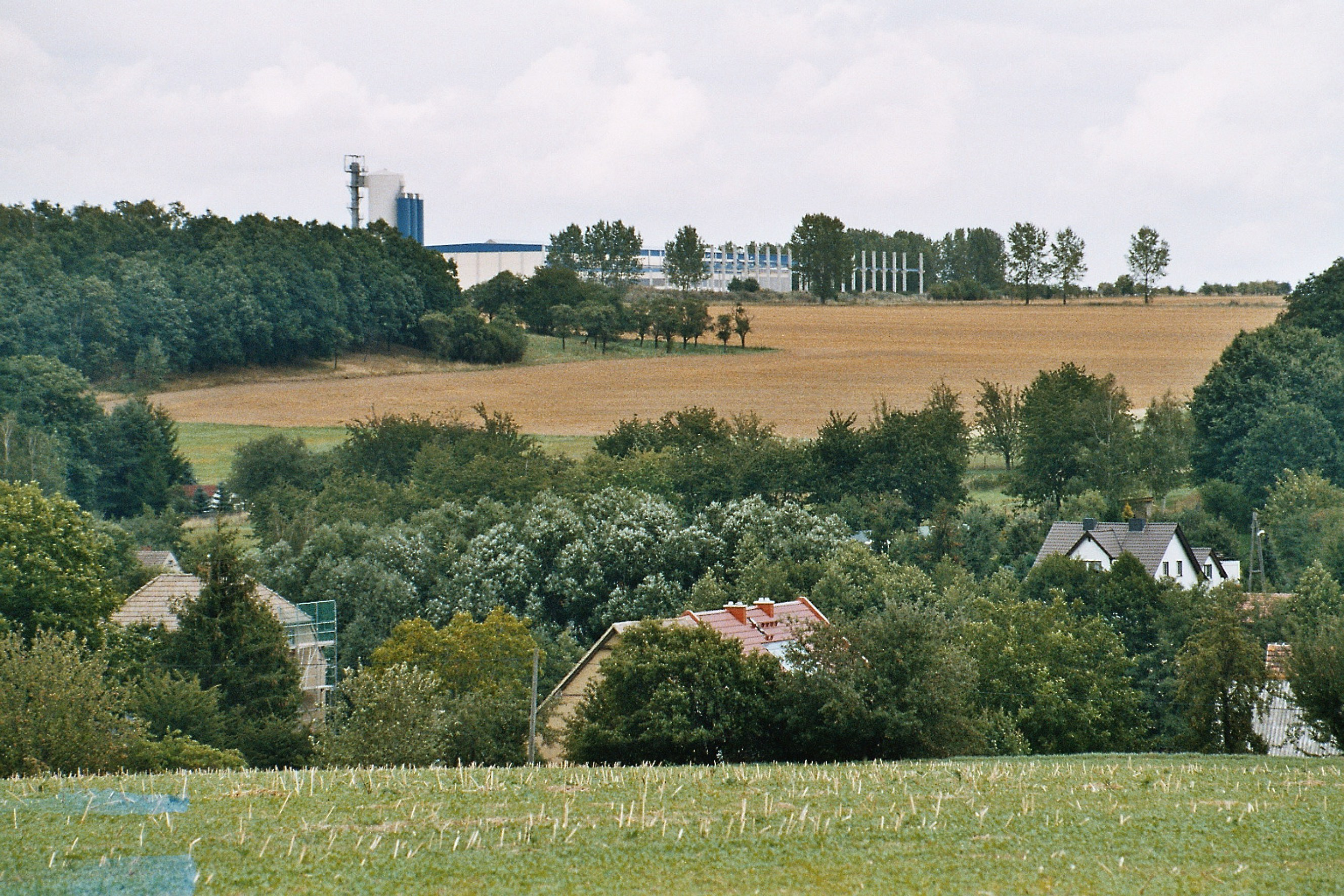 Waldau (Osterfeld), view to the village, telephoto